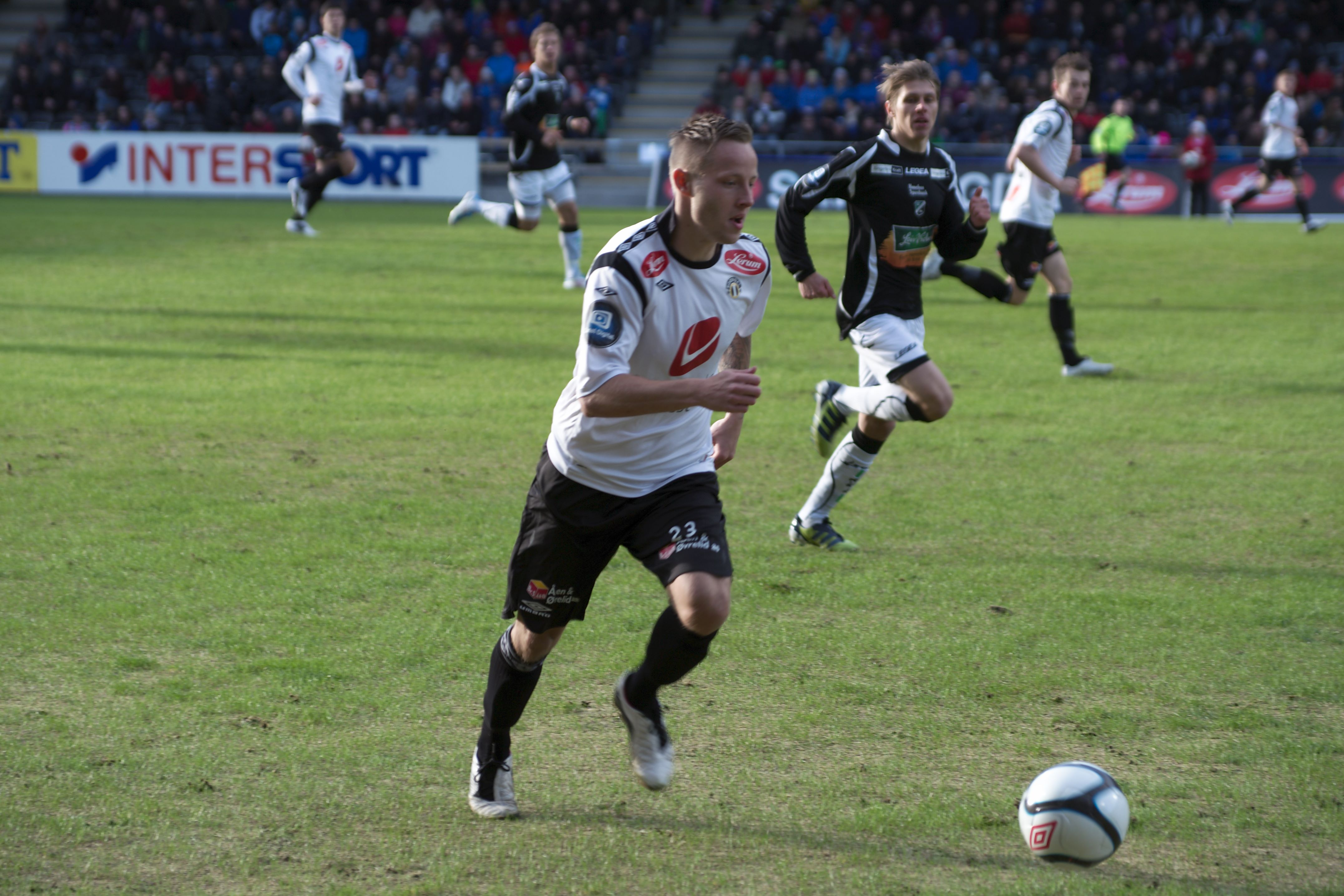 Soccer player Tonny Brochmann Christensen.